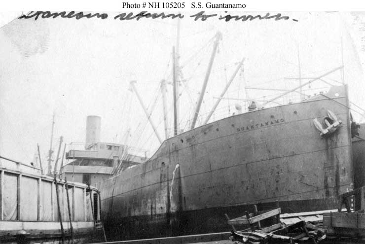 S.S. Guantanamo (American Freighter, 1910) In port, possibly when inspected by the Third Naval District on 5 October 1917. This British-built ship served as USS Guantanamo (ID # 1637) from 20 May 1918 to 25 January 1919. (U.S. Naval Historical Center Photograph NH 105205)